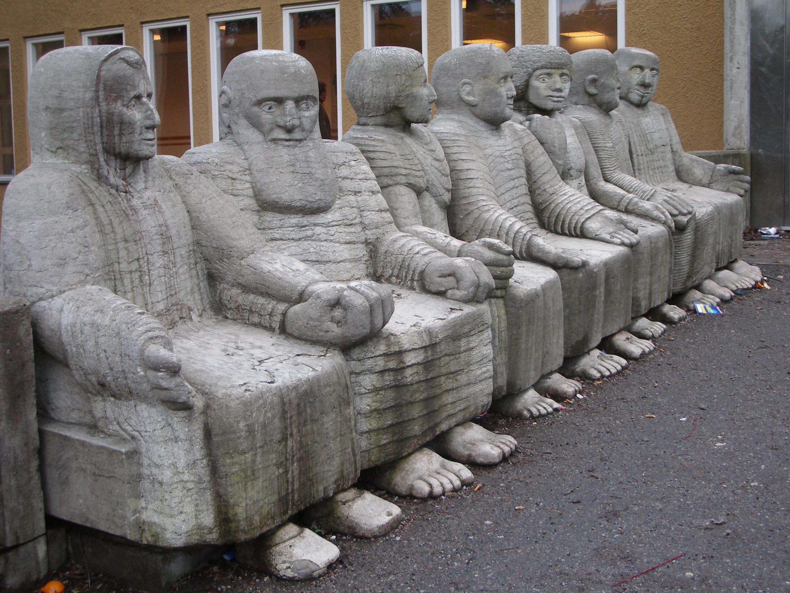 After the bath (Efter badet'), 1971-76, limestone, by Swedish artist Pye Engström, Västertorp, Stockholm, Sweden. From left to right: Elise Ottesen-Jensen, Paulo Freire, Sara Lidman, Mao Tse-Dong, Angela Davis, Georg Borgström and Pablo Neruda.